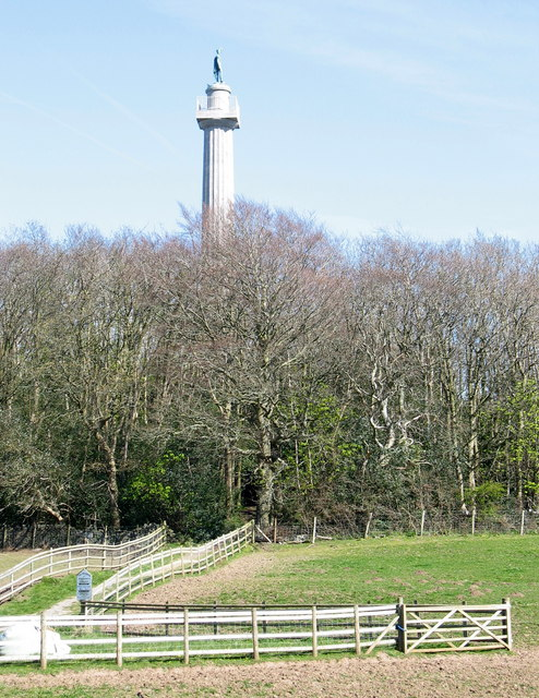 Entrance and car park at Twr Marcwis